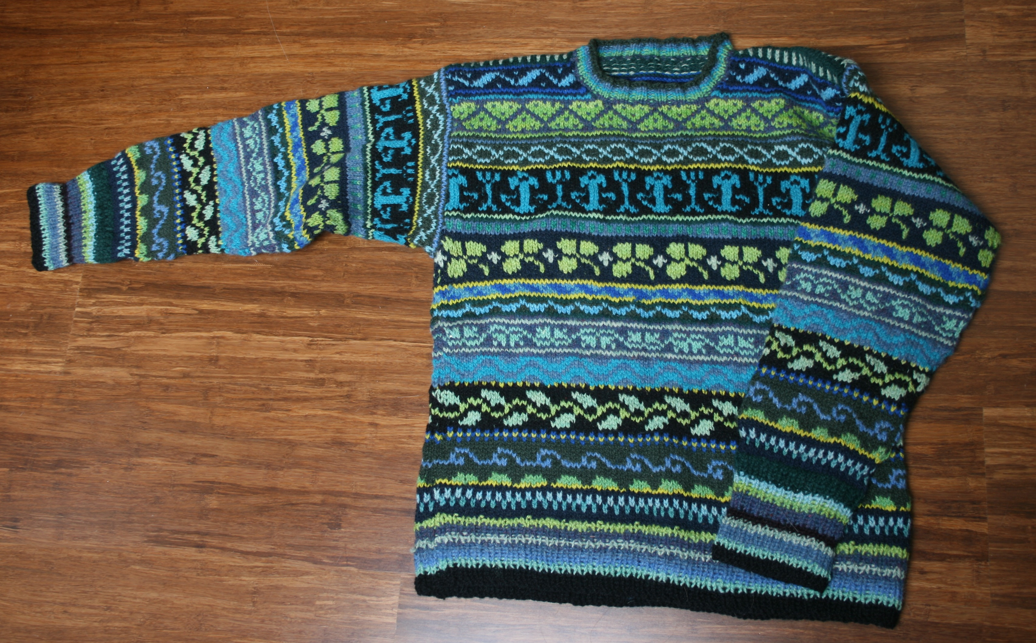 Fair isle sweater knit out of worsted weight 2-ply Philosopher's Stone wool. Some of the colours I dyed -- especially the bright greens and the lovely garish yellow (used sparingly)